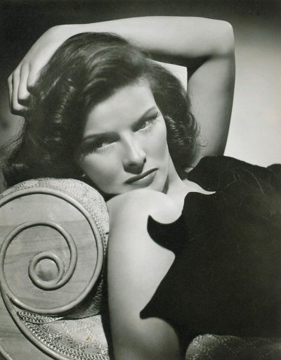 Publicity photograph of Katharine Hepburn.